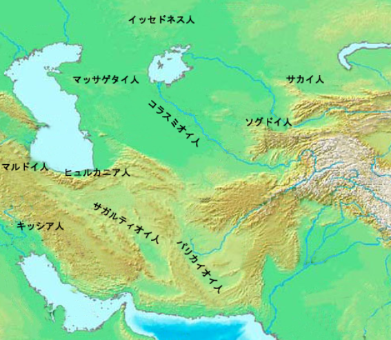 Position of various races whom Herodotus records.